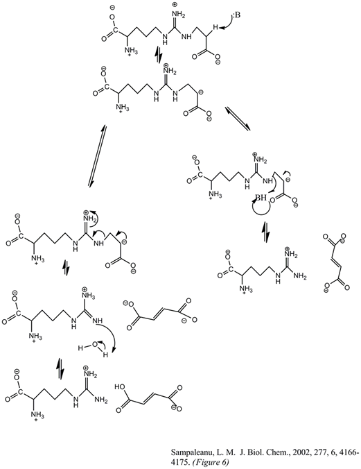 ASL mech